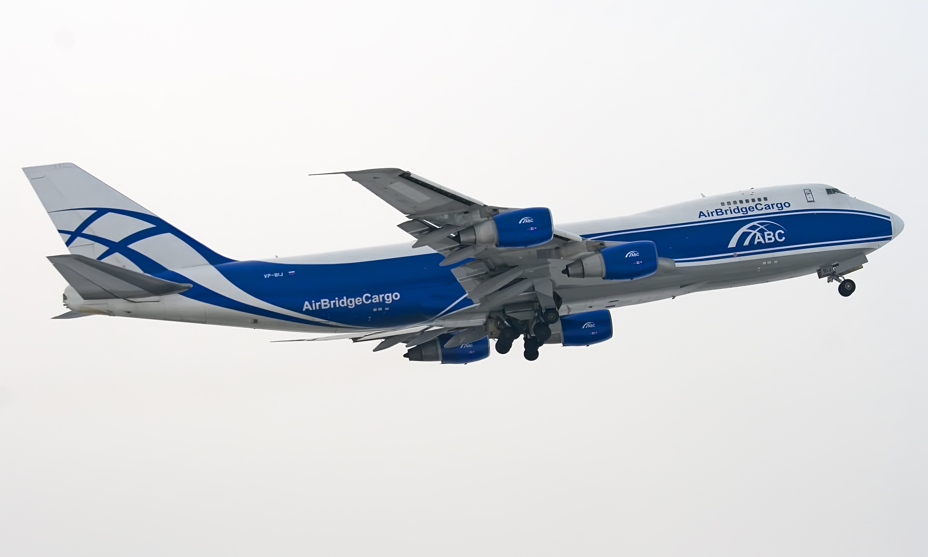 Boeing 747 of AirBridgeCargo Airlines at Domodedovo International Airport